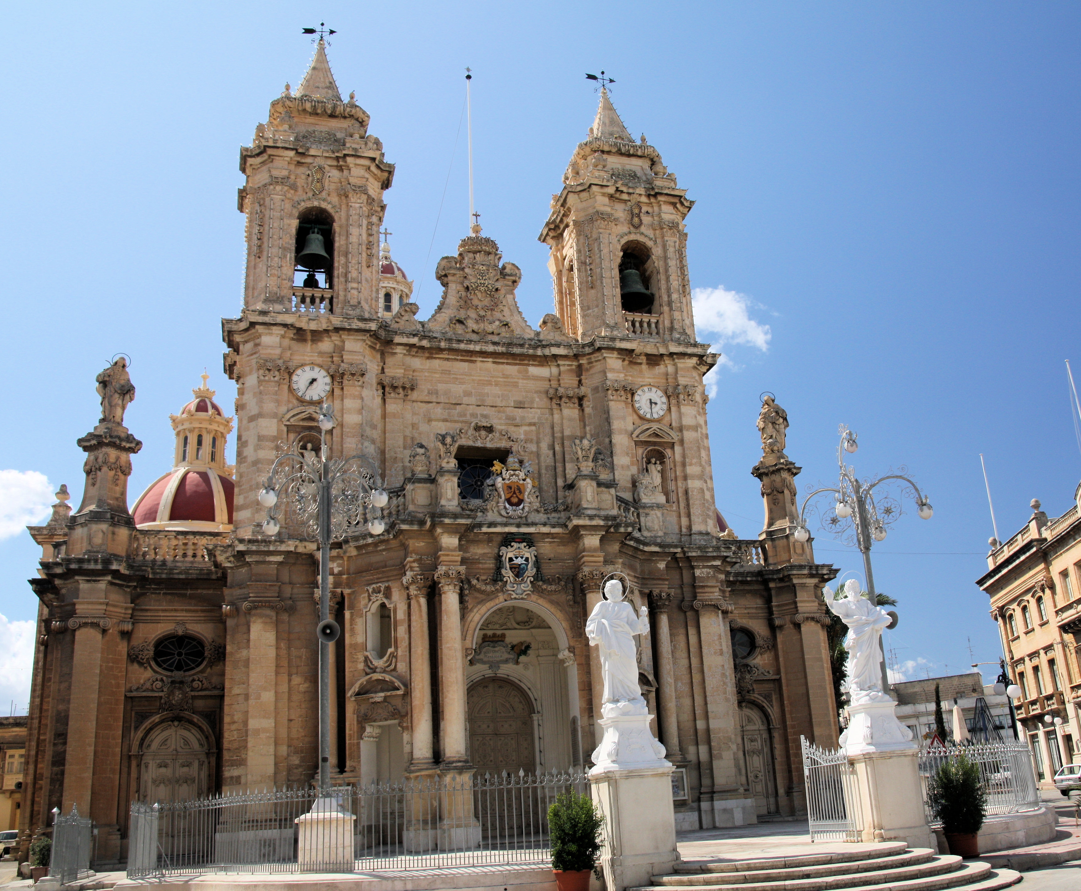 Zabbar Maria Mater Gratiae Sanctuary.